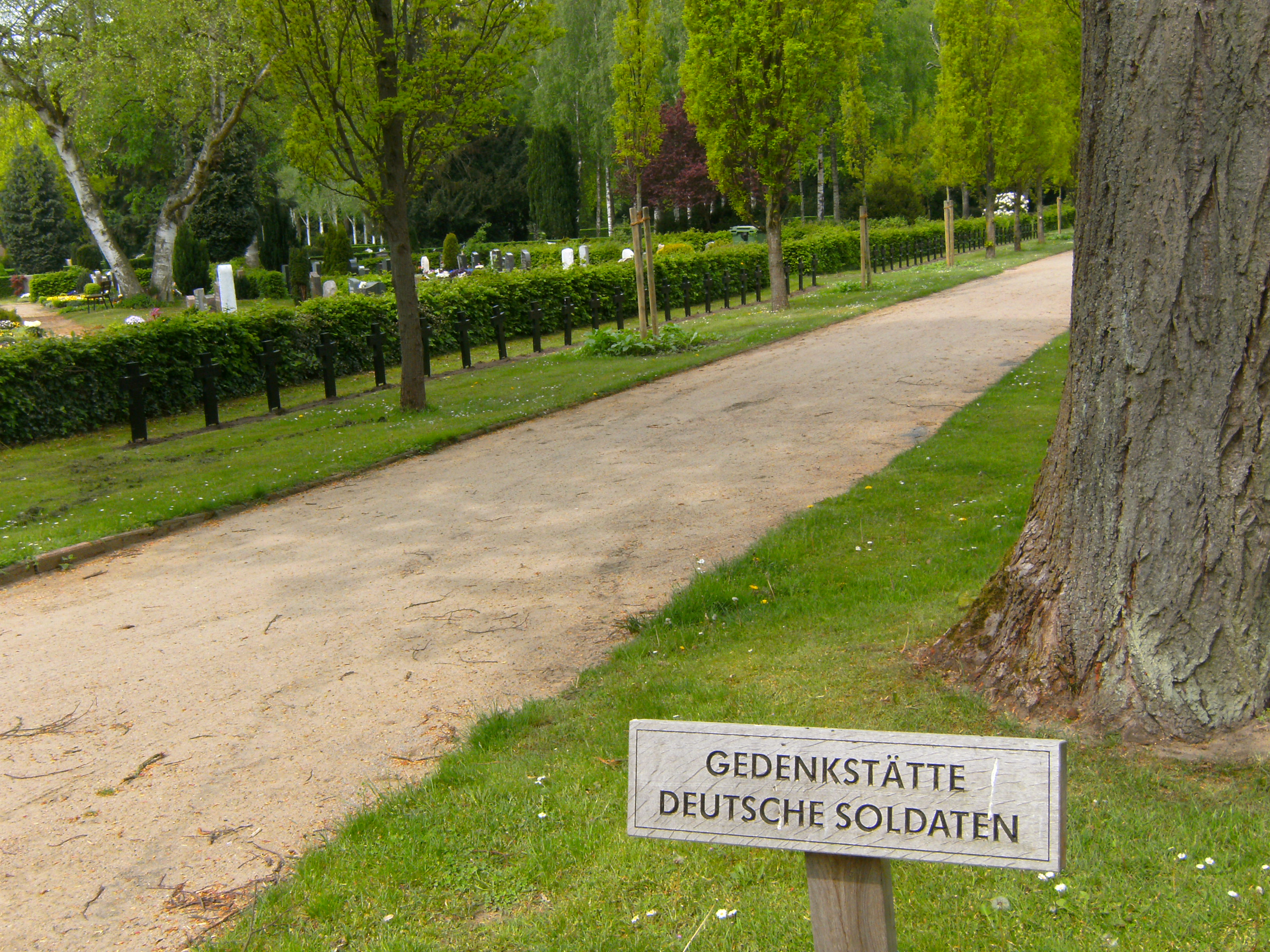 German war graves of World war II within Vorwerker Friedhof, block 12 near chapel 1 (Kapelle 1).